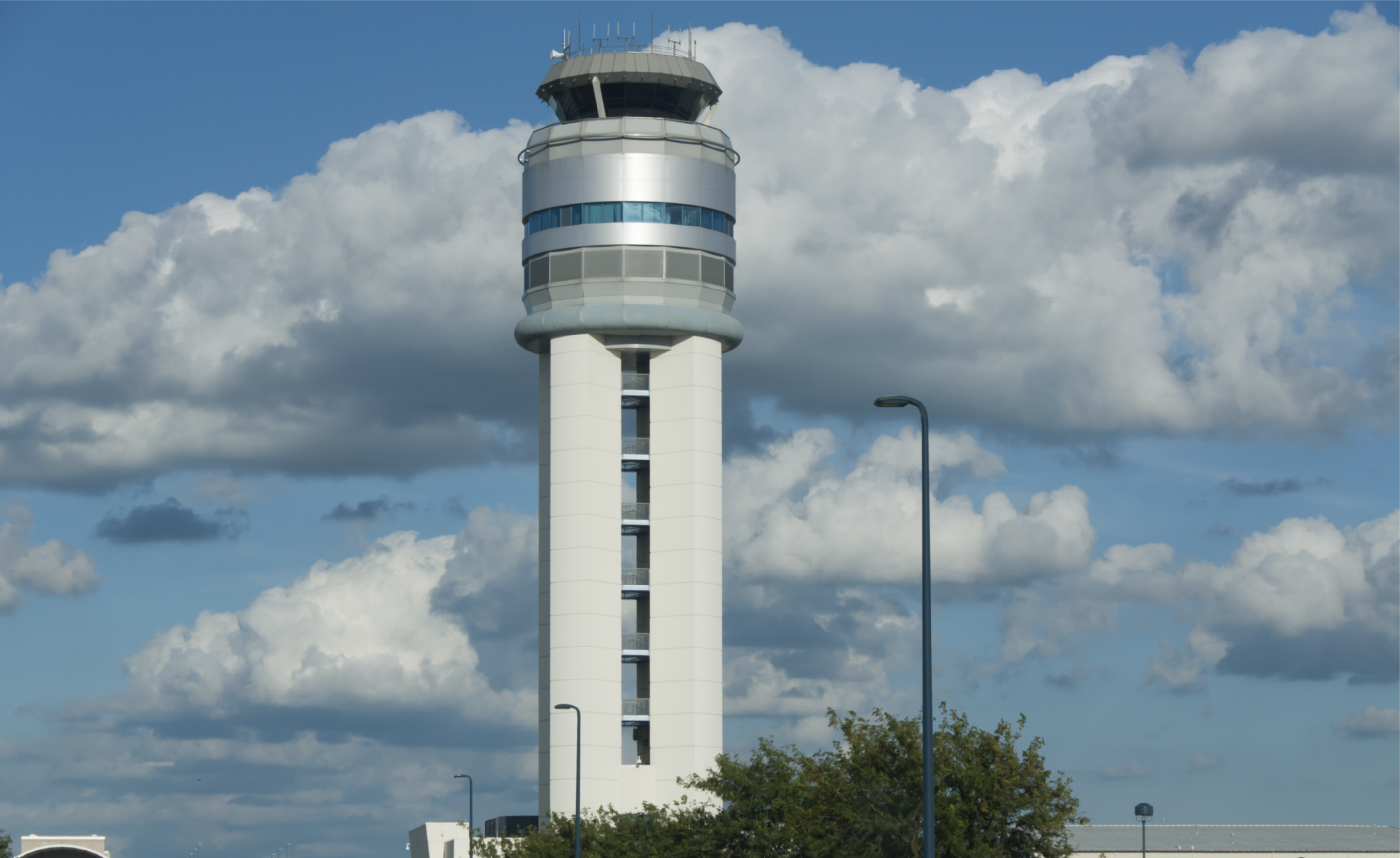 John Glenn Columbus International Airport(KCMH), formerly known as Port Columbus International Airport, Air Traffic Control Tower. Elevation: 815 ft. / 248.4 m (surveyed).